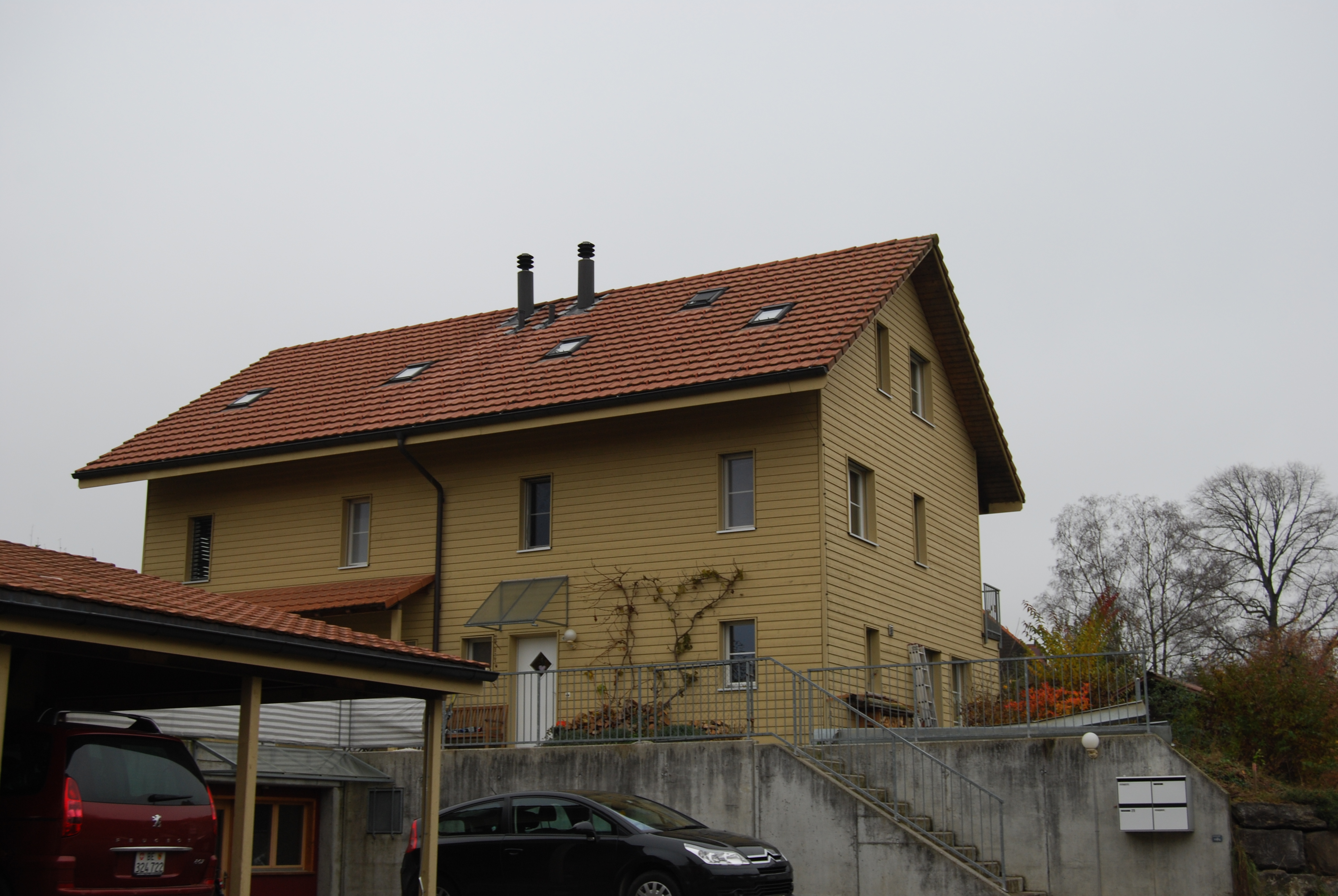 Zuzwil, canton of Bern, SwitzerlandEsperanto: Zuzwil, Kantono Berno, Svislando